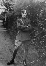 Photograph of Lieutenant Leefe Robinson VC. Robinson died on 31 December 1918.